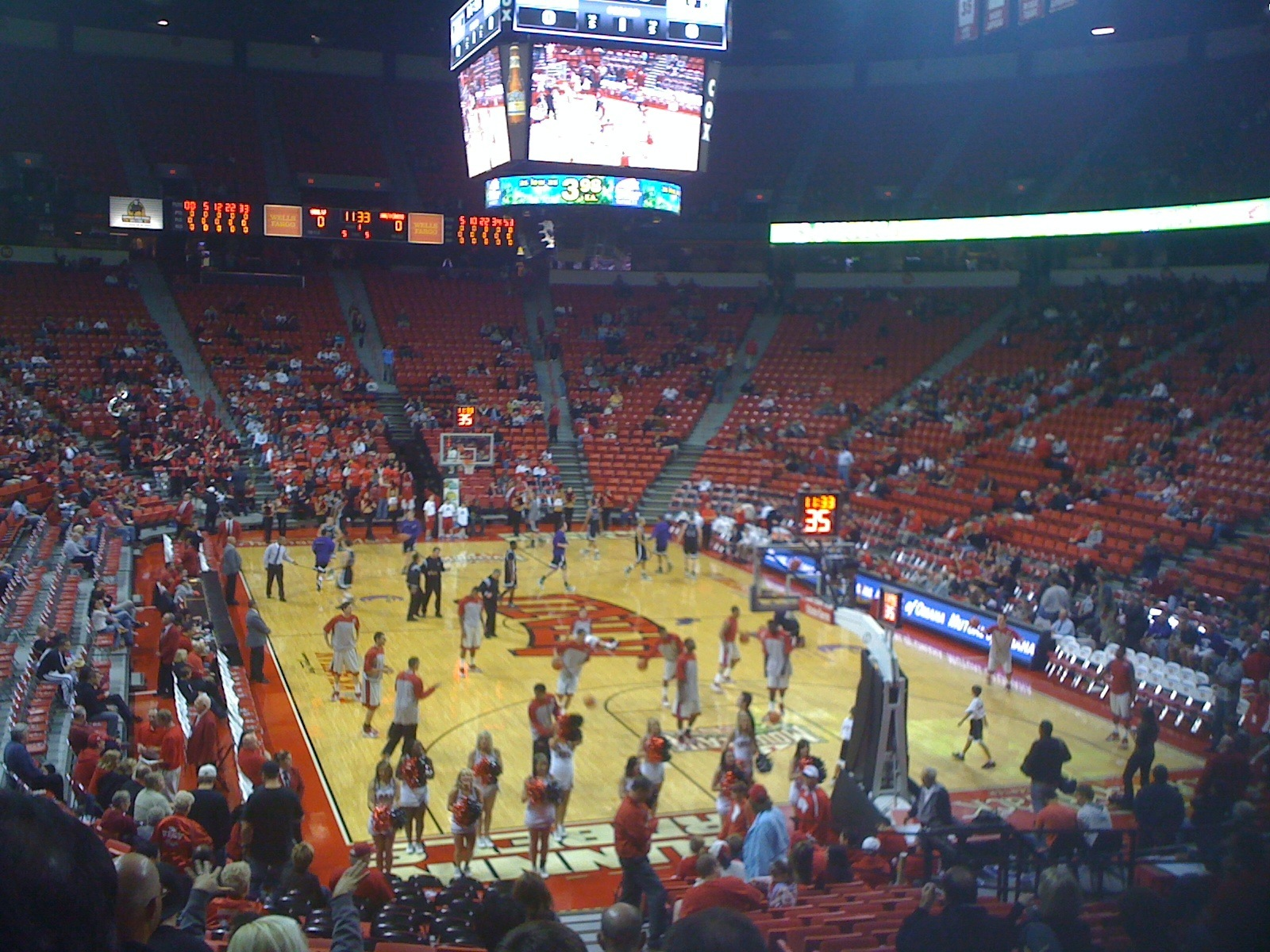 The interior of the Thomas and Mack Center in Paradise, Nevada, before a UNLV basketball game.